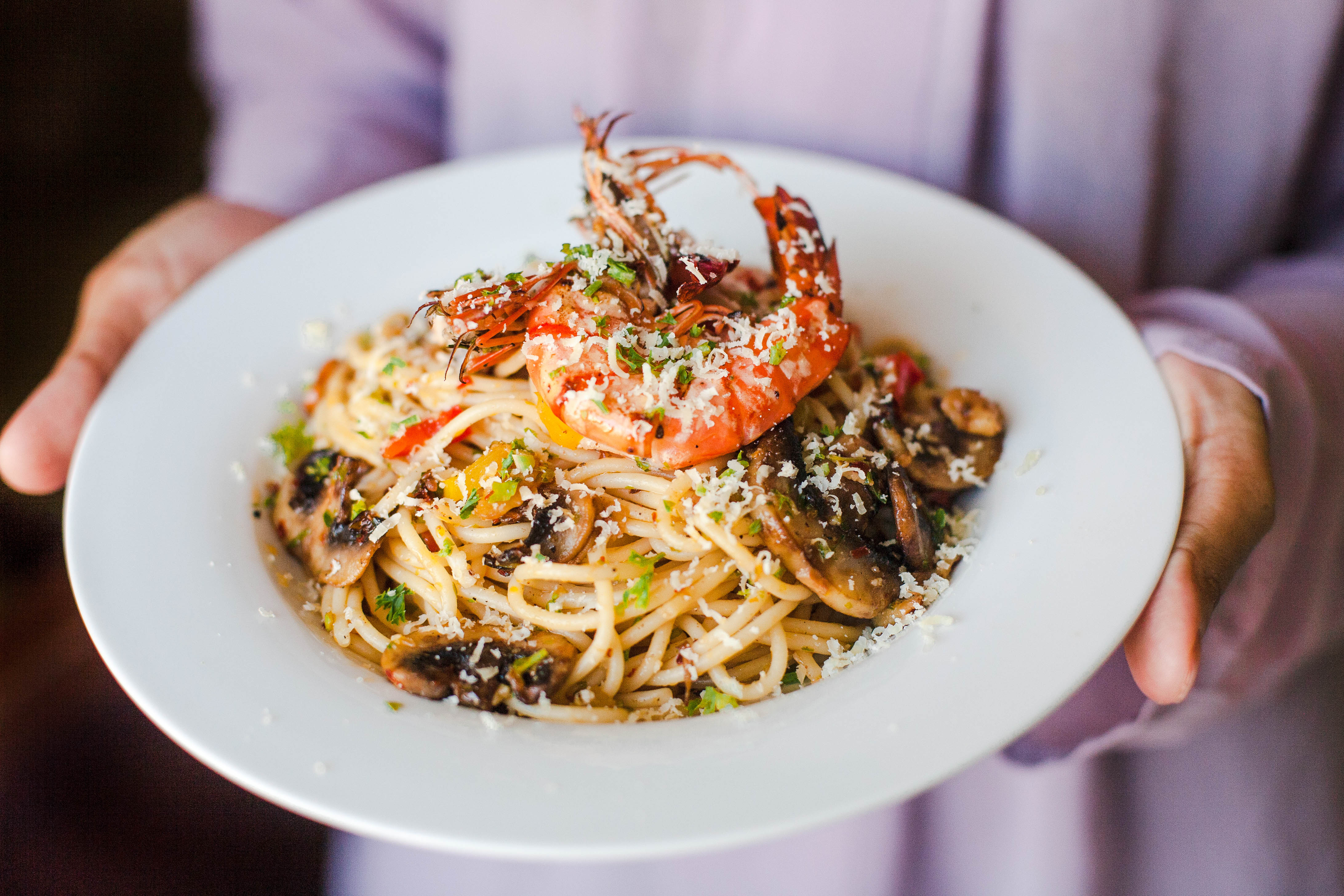 Homemade seafood pasta